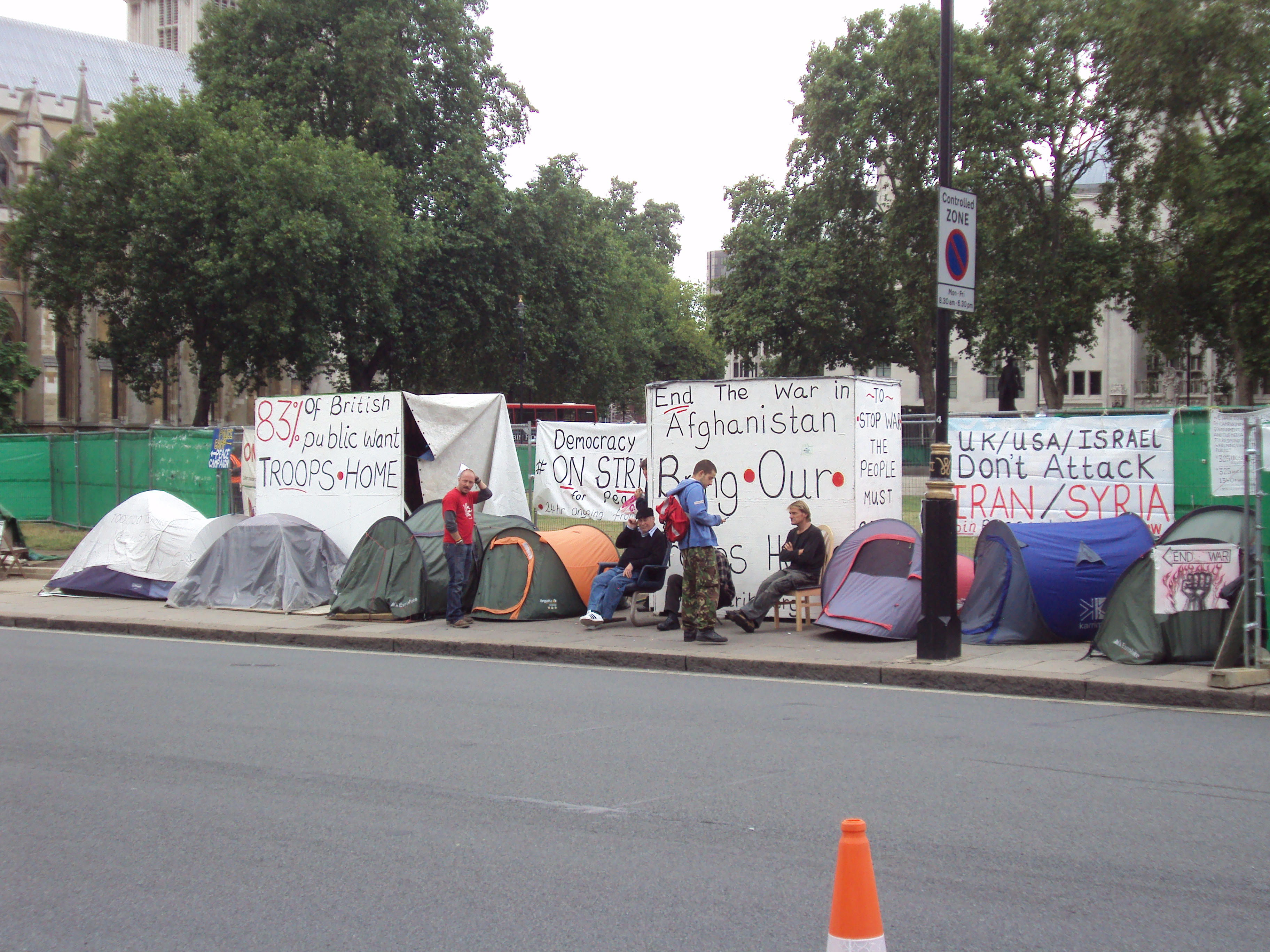 Anti-war protesters camped on St Margaret Street opposite the Palace of Westminster, London.